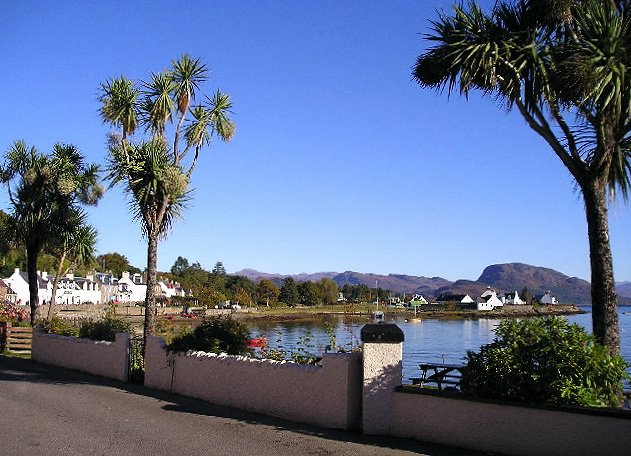 Harbour Street, the main street in Plockton, Wester Ross.